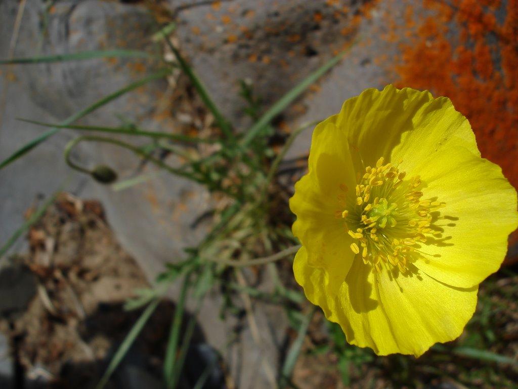 Papaver anomalum (Syn. Papaver nudicaule var. aquilegioides) from Orkon river, Mongòlia.